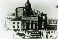 Horse-power tram beside San Anton church in Bilbao.